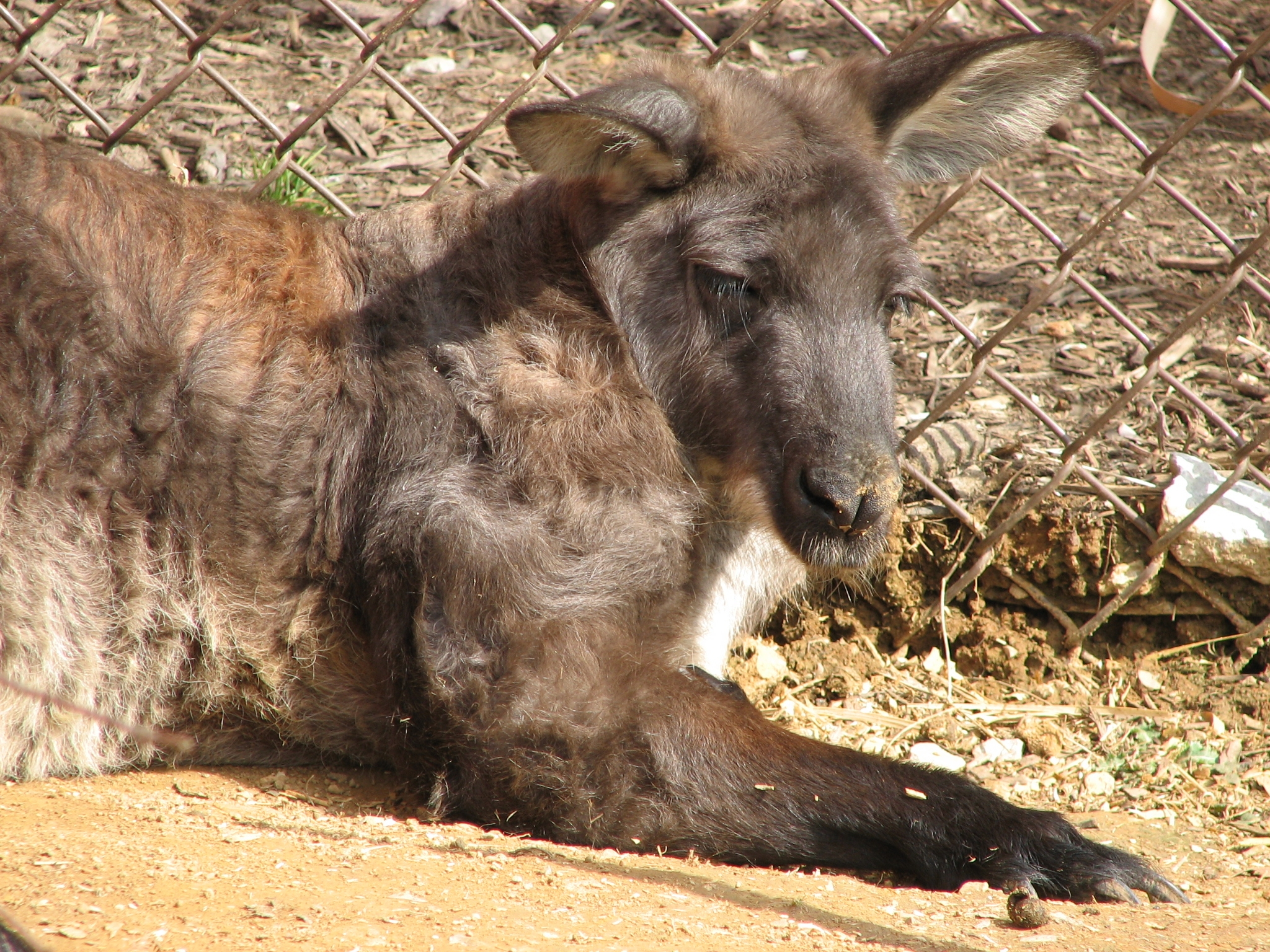 Male Wallaroo - Macropus robustus